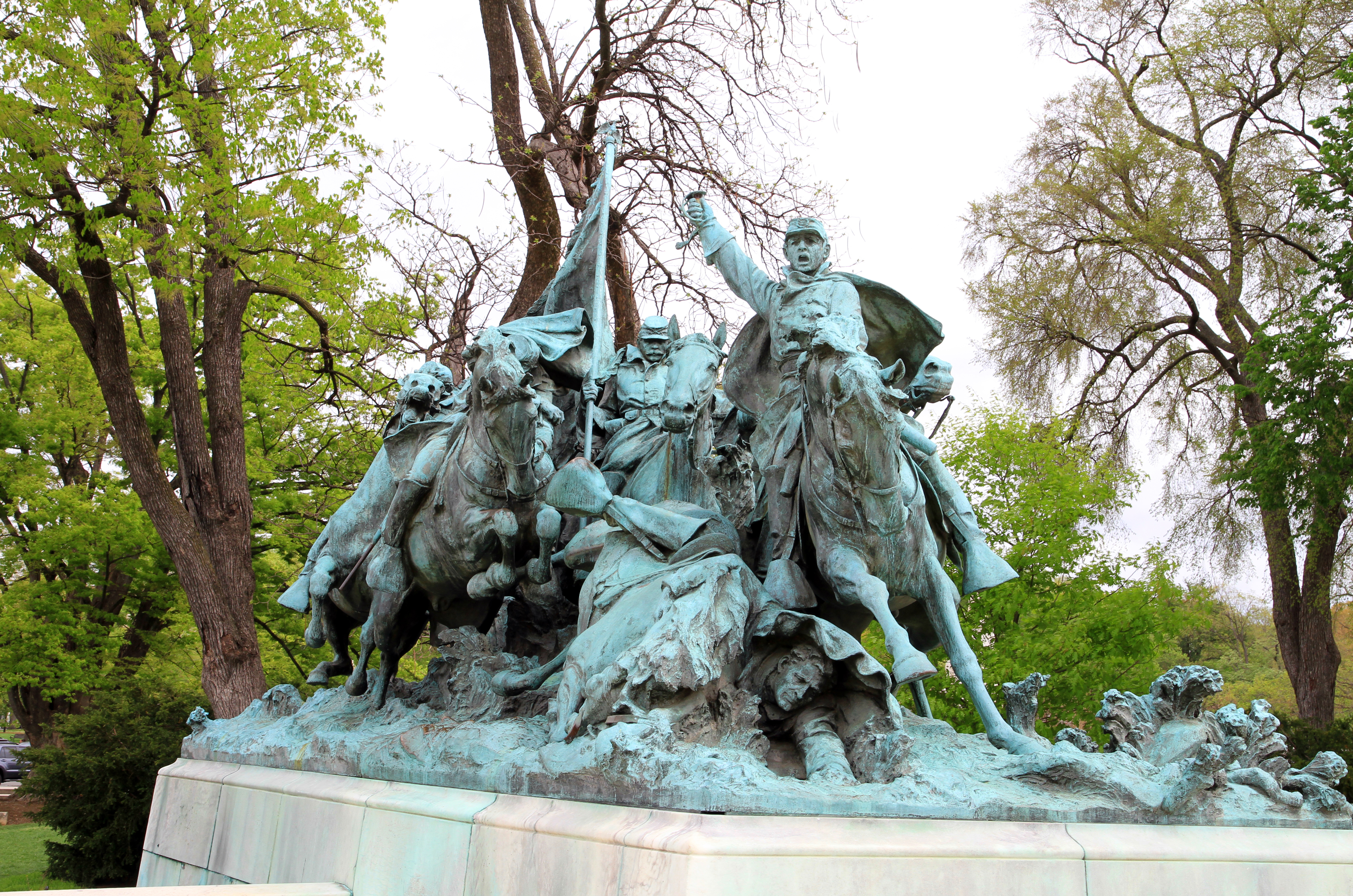 Ulysses S. Grant Memorial